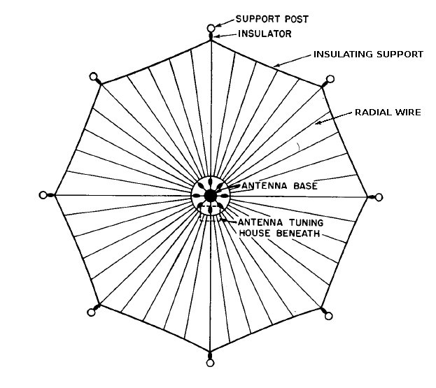 A counterpoise, a network of wires suspended above the ground under a transmitting radio antenna, which functions as a ground connection for the transmitter. The counterpoise consists of "star" of radial copper wires extending from the base of the antenna mast, connected at the center to the "ground" side of the radio transmitter. It is used in medium wave and longwave radio transmitters when a low resistance ground connection cannot be constructed because of high soil resistance. The counterpoise functions as a large capacitor plate, with the conductive ground layers as the other plate. In this example the ends of the radial wires are attached to a circular nonconductive cord supported by insulators from a ring of poles. The counterpoise is suspended high enough so that maintenance personnel can walk under it to reach the helix house feed enclosure located at the base of the antenna under the counterpoise. The radial counterpoise wires should be about a quarter wavelength long if possible, and should not be electrically connected at the periphery, to prevent eddy currents from flowing in the loops which waste energy. Alterations to image: Added two labels, "INSULATING SUPPORT" and "RADIAL WIRE" to the image to improve explanation